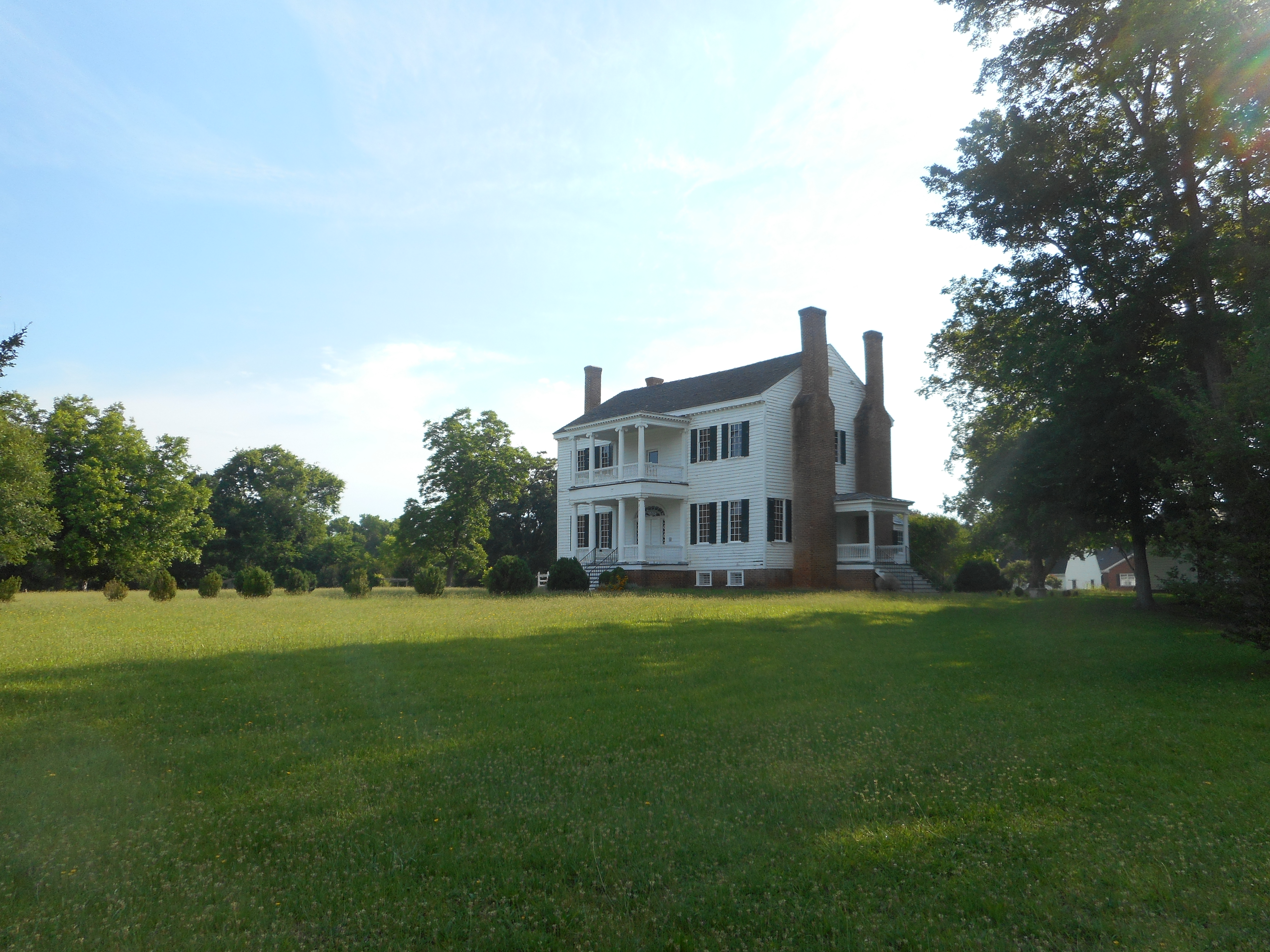 The historic Village View mansion in Emporia, Virginia. The mansion can be found directly across the CSX Petersburg & Danville railroad line along the east side of US 301, although this view is on Briggs Street, the given address of the mansion.